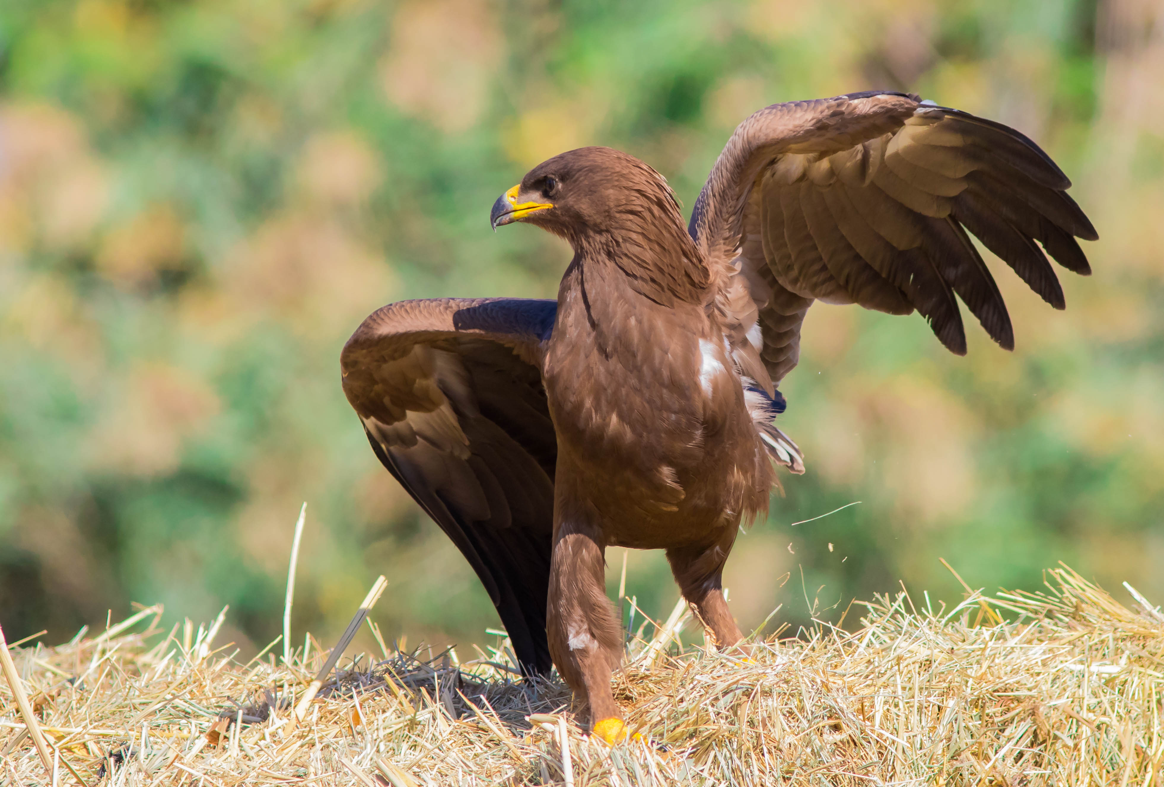 flying lesser spotted eagle 2016